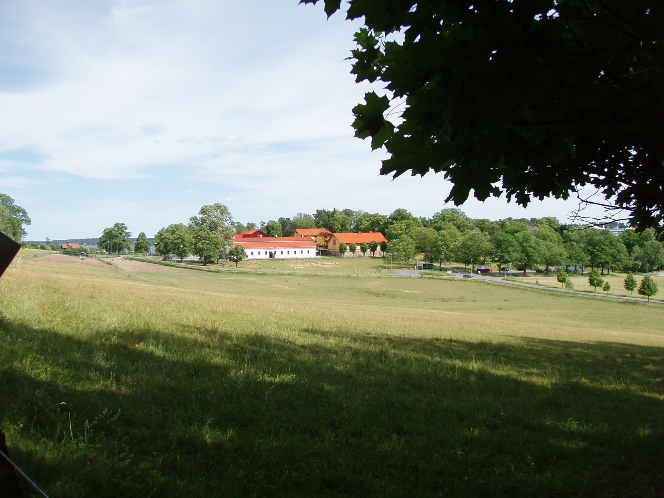 Elfviks farm, june 2008.